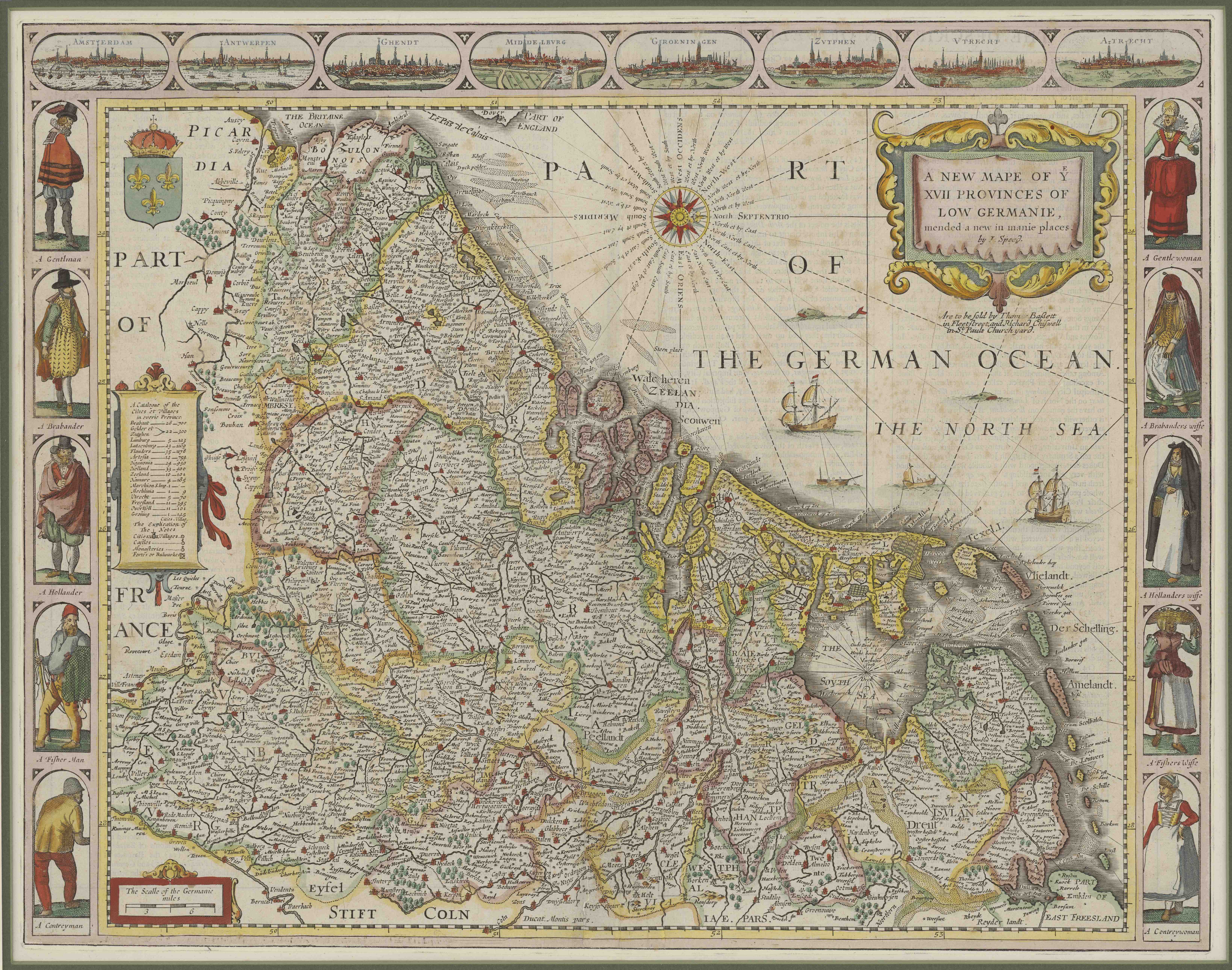 A new mape of ye XVII provinces of Low Germanie / mended a new in manie places